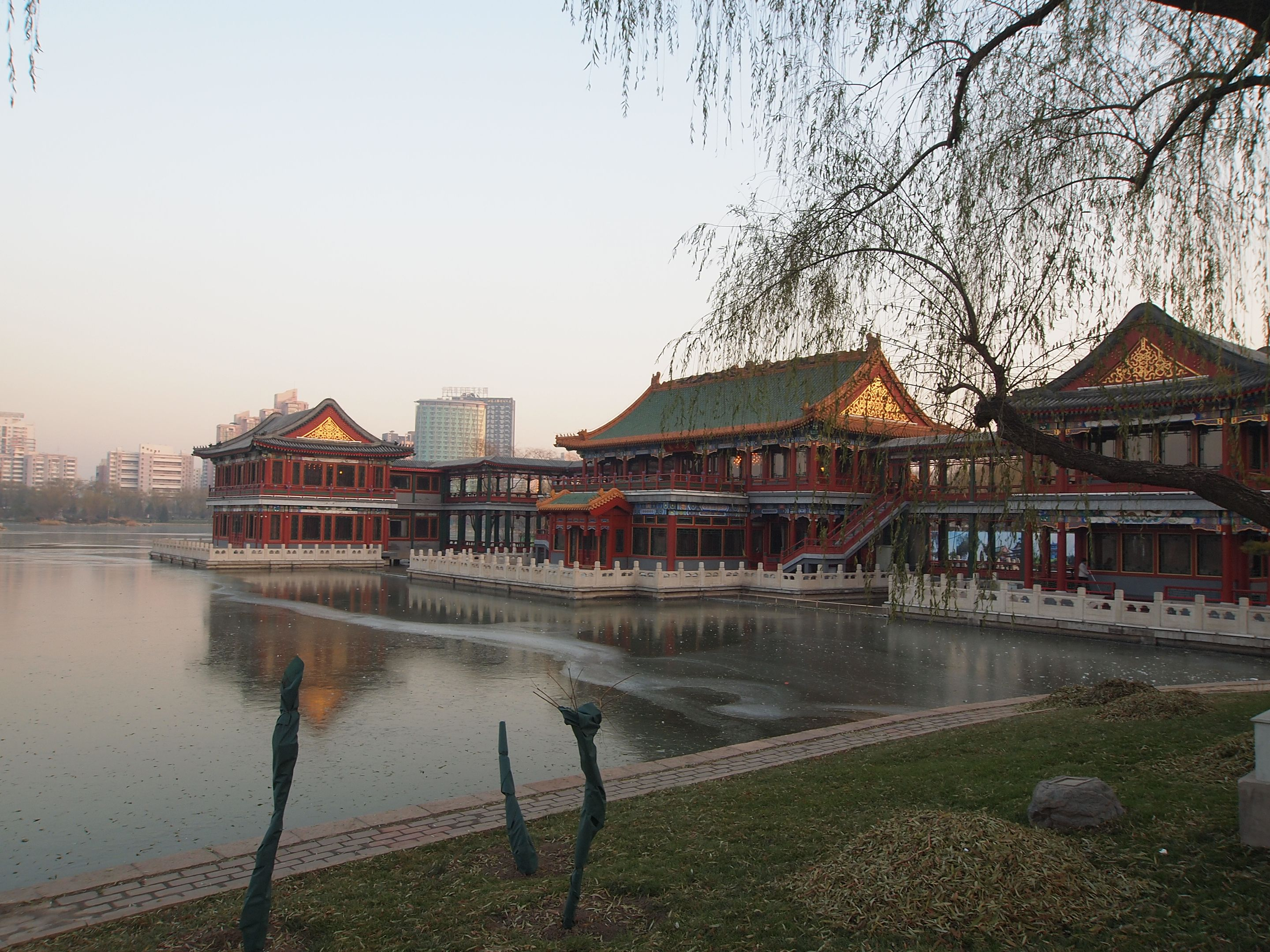 龙吟阁 - Dragon Roar Pavilion - 2011.12